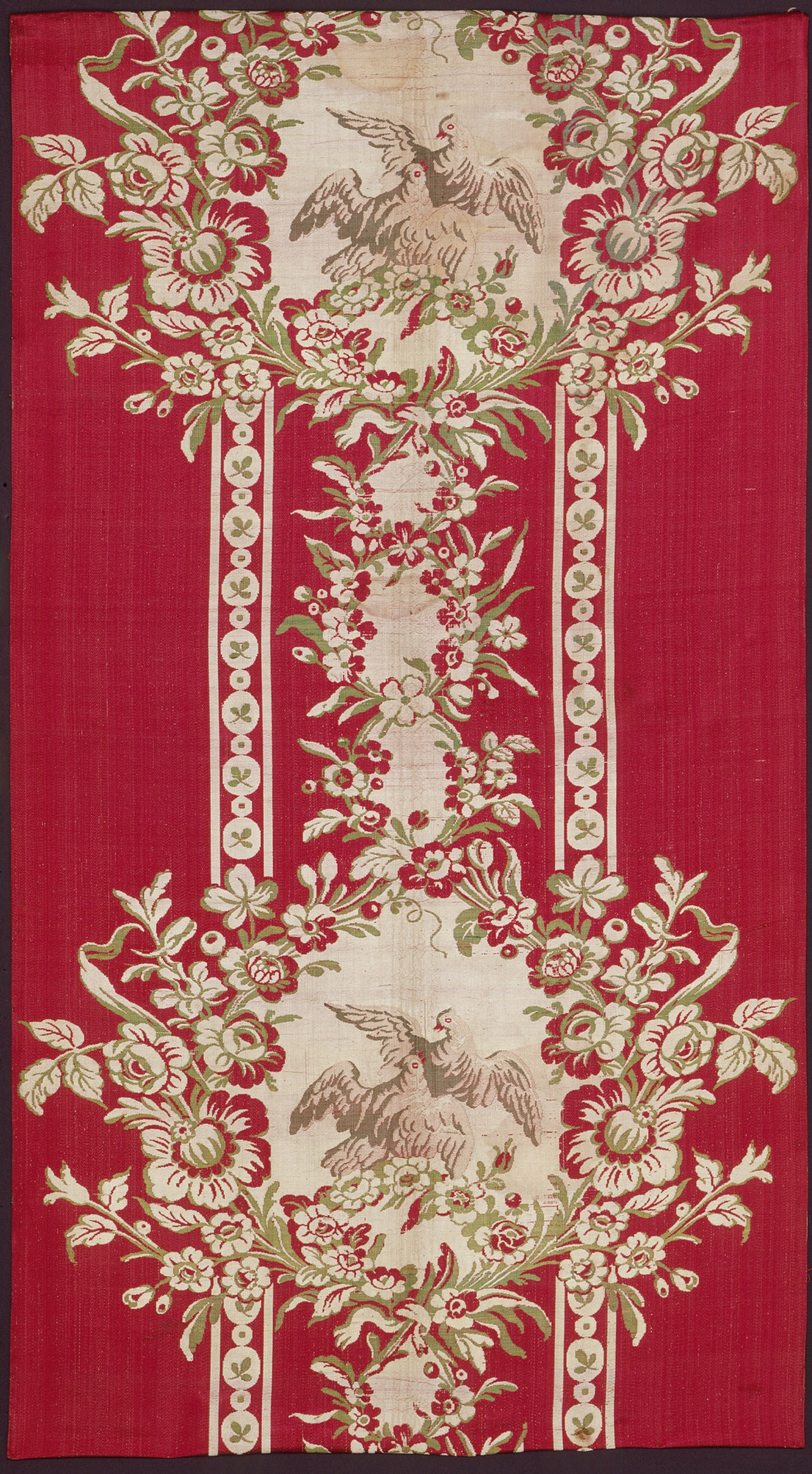 France, Lyon, circa 1780 Textiles; panels Silk brocaded on silk damask Costume Council Fund (M.66.41.1) Costume and Textiles